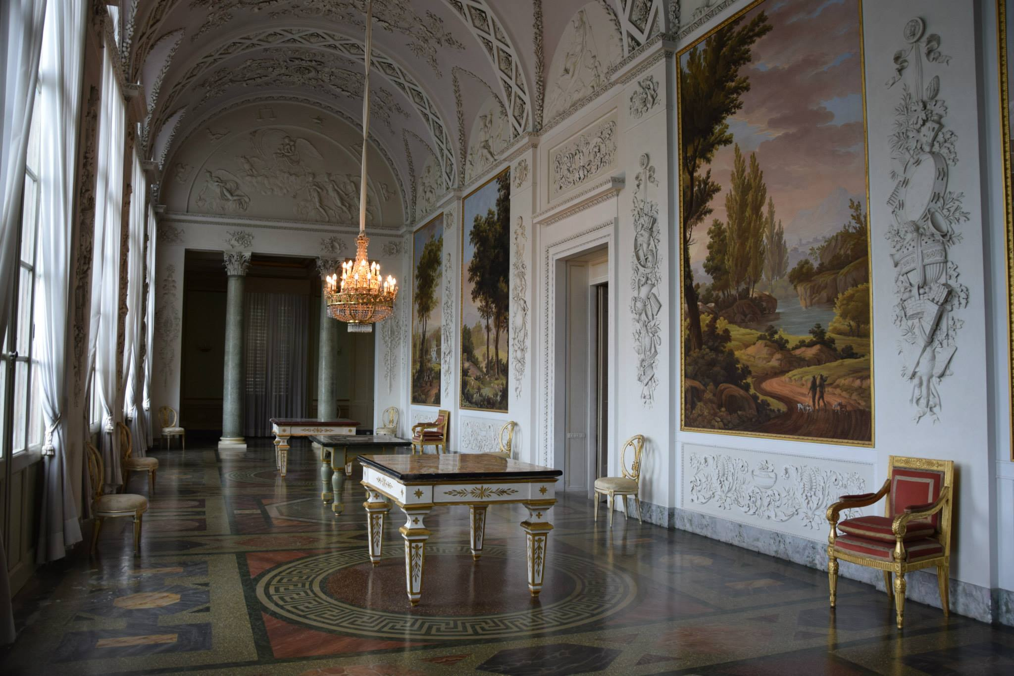 Peristilio in the museum "Villa Medicea del Poggio Imeriale"